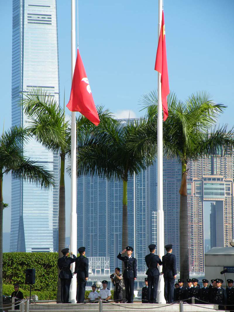 A ceremony for flag-raising and lowering to half-mast at Golden Bauhinia Square and observe three minutes of silence in mourning at 8am, 26th August 2010. 為悼念在菲律賓挾持人質事件中遇難的香港市民，香港特區政府於2010年8月26日早上8時在灣仔金紫荊廣場出席升旗及下半旗儀式，並默哀3分鐘。